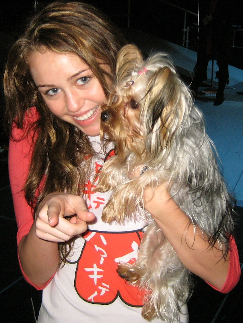 This puppy likes to rock!